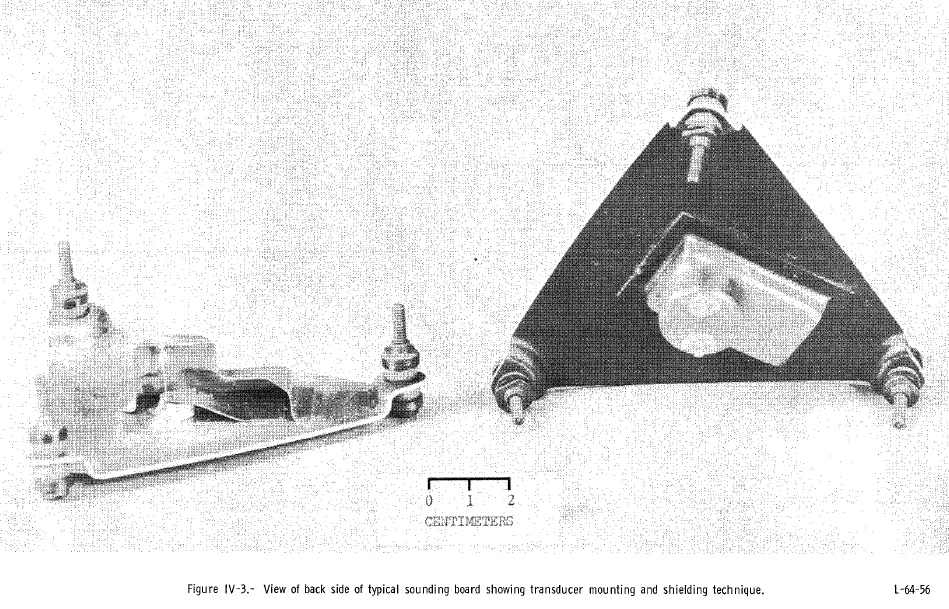 Photography of micrometeoroids impact-type detector on Explorer 23 satellite. Extracted from NASA Technical Note PDF file.